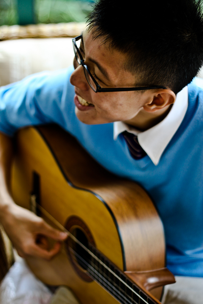 A Chinese teenager playing the guitar at a Christmas party in Singapore.